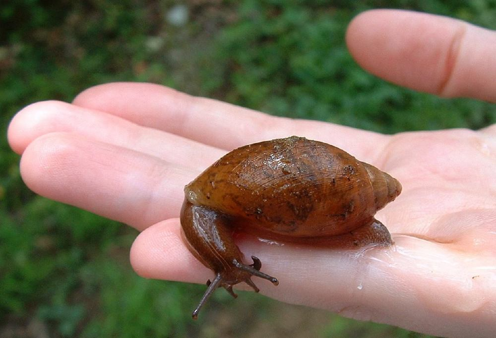 The land-snail, Euglandina rosea, at The Mounds Park, Tallahassee FL USA